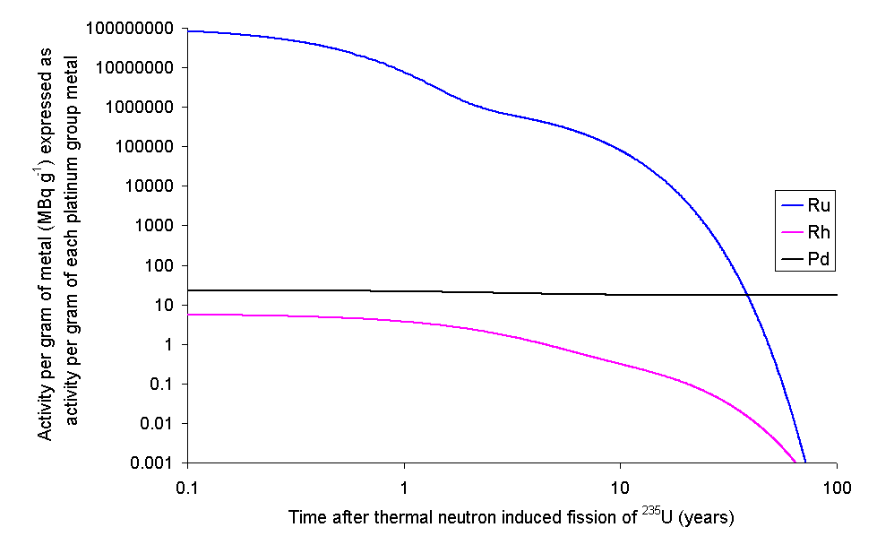 I drew it using public domain data and a series of calculations done myself